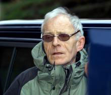 Founder and leader of the sectarian organization Tvind, Mogens Amdi Petersen.